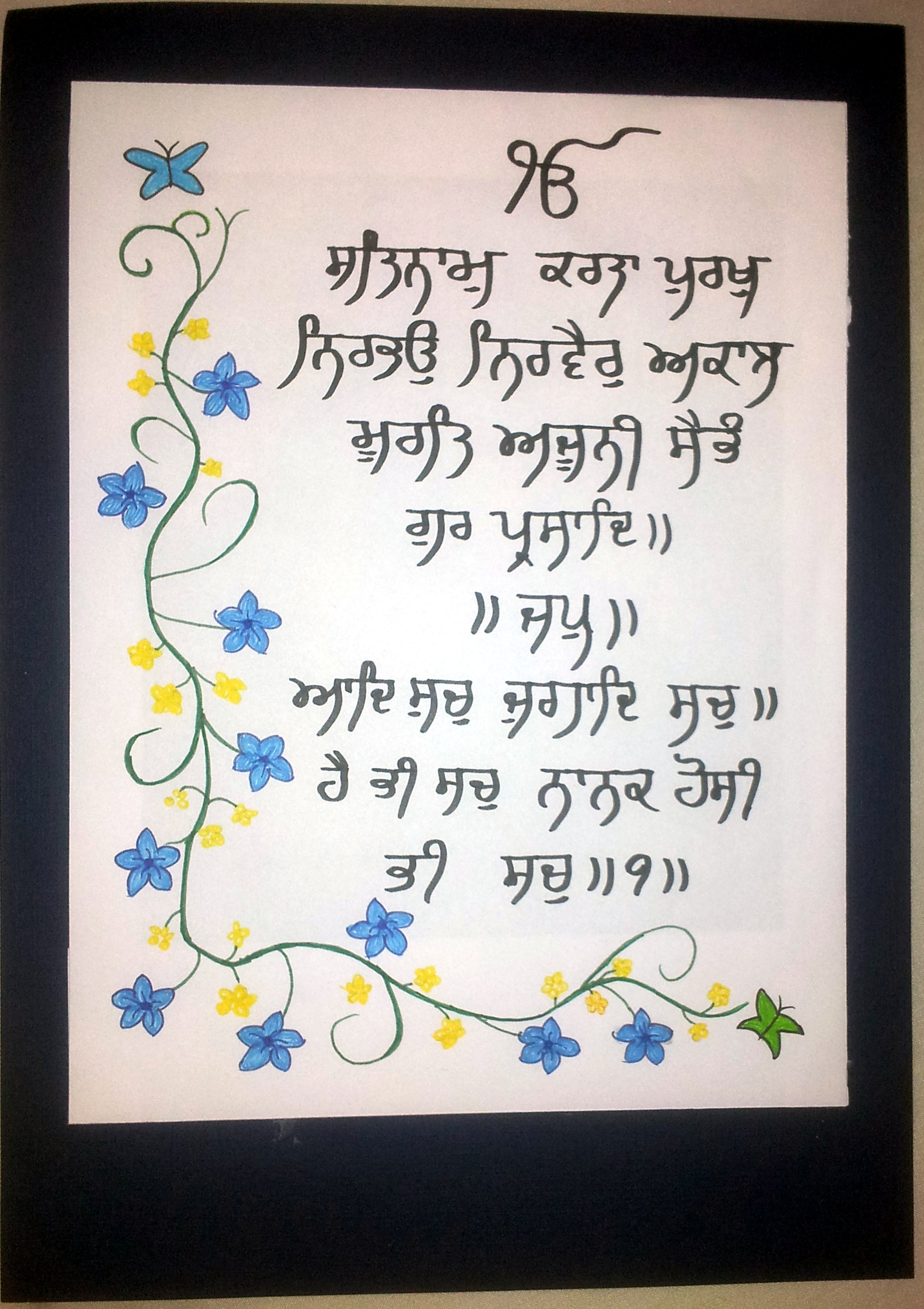 The first passage from the Sikh Scriptures - Sri Guru Granth Sahib is called Mool Mantar (Mul Mantra)